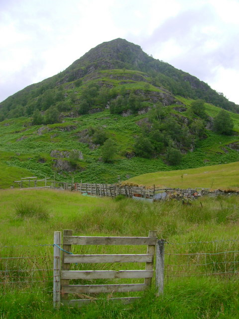 Creag Ghuanach The steep eastern side of Creag Ghuanach.